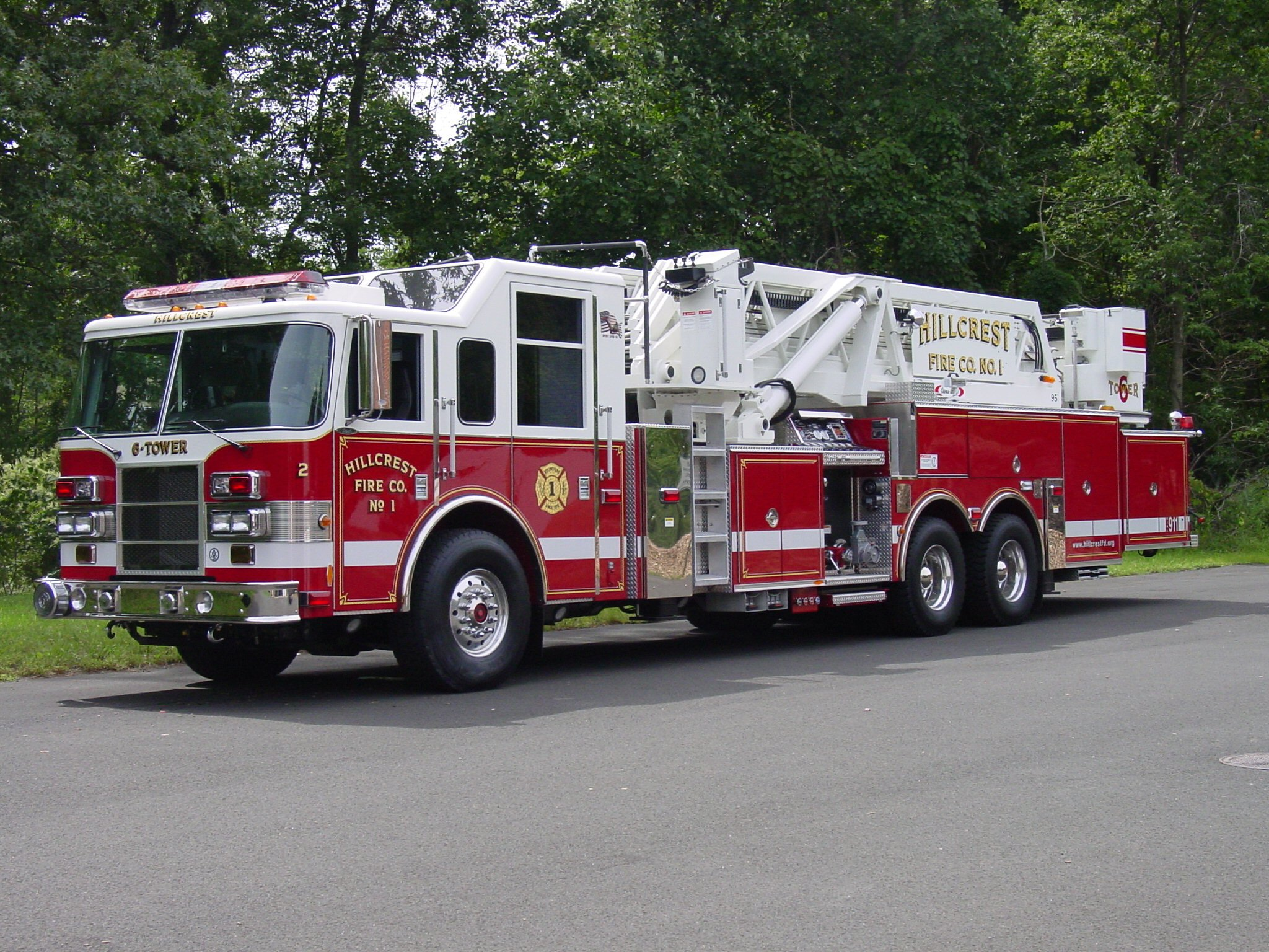 2002 Pierce Dash 2000 95' Midmount Aerial Platform Quint Apparatus pictured is 6-Tower of the Hillcrest Fire Co. #1 located in Rockland County, NY, United States. The apparatus features a Detroit Diesel Series 60 500hp engine, Allison HD4060P Transmission, Hale 8FG 1500 GPM single stage pump, 300 gallon poly water tank, TAK-4 independent front suspension, Command Zone fully multiplexed chassis and aerial, 10kw AMPS hydraulic PTO generator